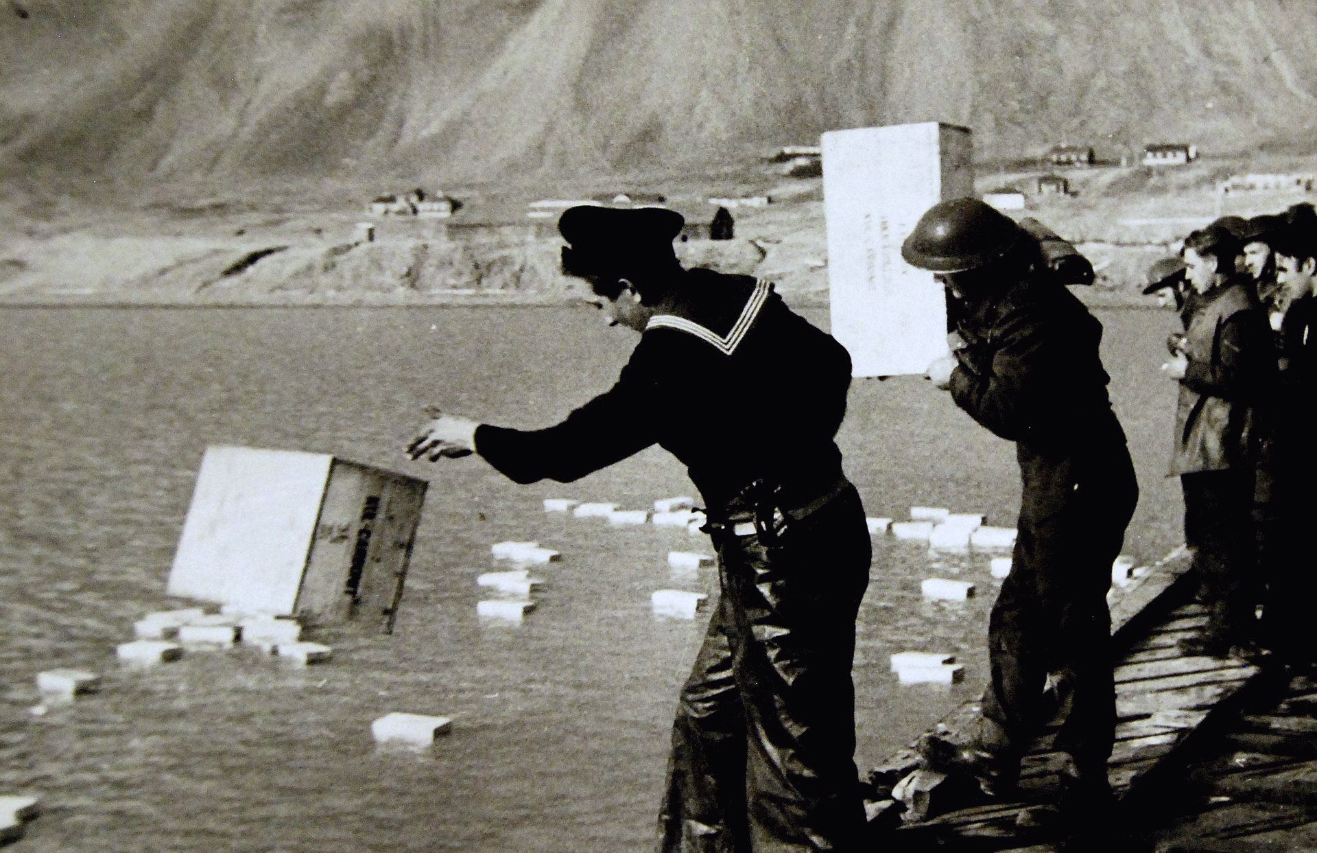 Lot 11609-10: Operation Gauntlet, August-September 1941. Allied Landing on Spitzbergen: Canadian and British and Norwegians stop enemy fuel source, bringing rescued Norwegians to Britain. Shown: New Aylesund. Destroying mining explosives unable to be removed. Office of War Information Photograph. (2015/10/23).